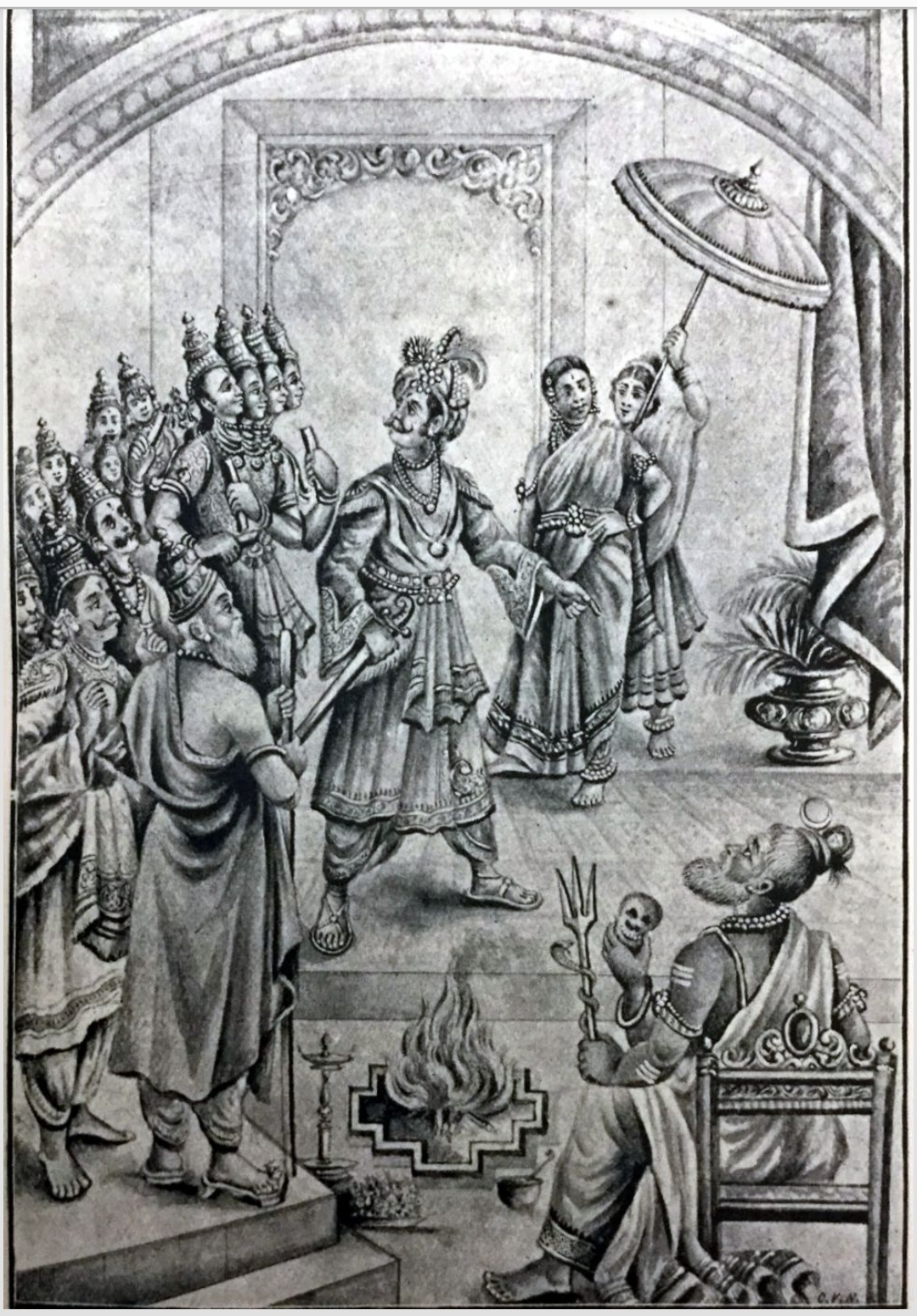 THESE ARE FROM A 100 YEAR OLD BOOK.